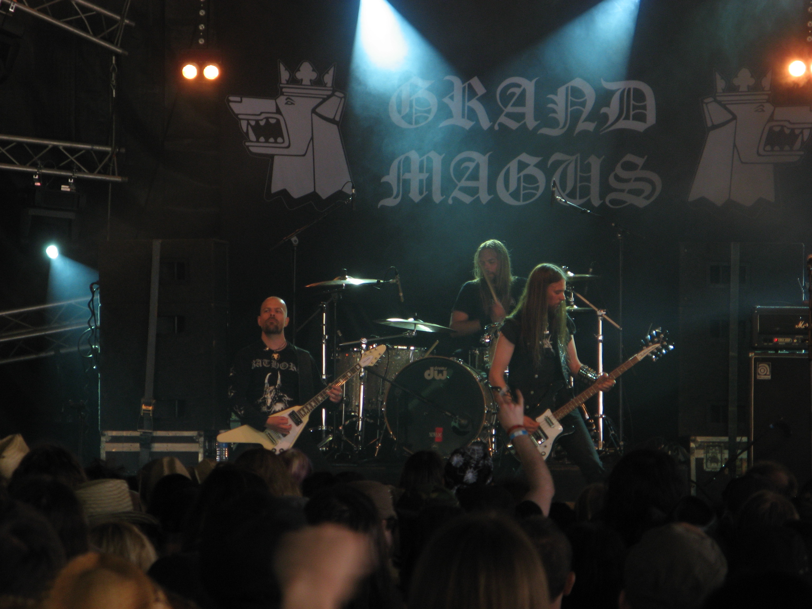 Grand Magus live at Hellfest 2009